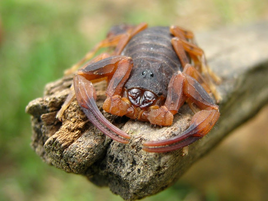 The Tityus bahiensis, also known as Black Scorpion, Scorpion is one of Eastern and Central Brazil. It measures 6 cm in length, has a very dark color and brown paws. The species is responsible, in Brazil, the largest number of cases of scorpion poisoning in rural areas.